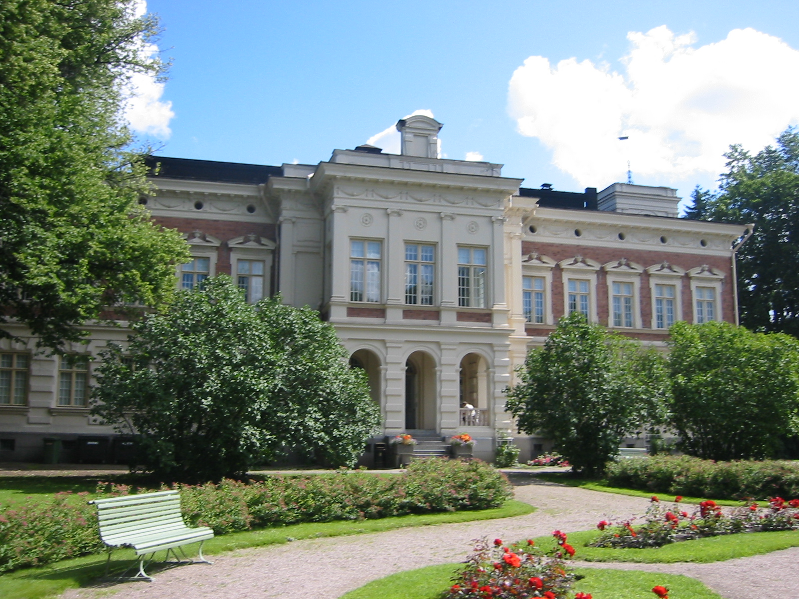 Hatanpää Mansion in Hatanpää arboretum, a botanical garden in Tampere